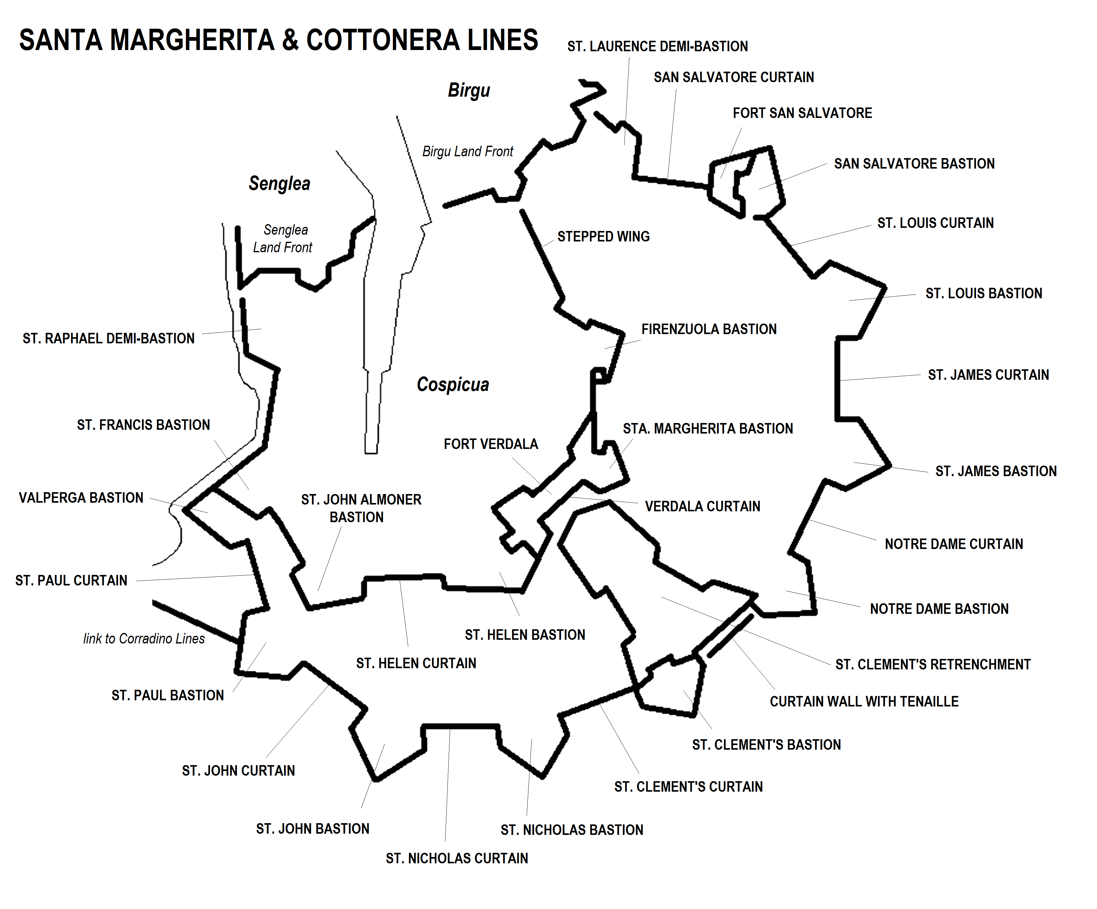 Map of the Santa Margherita and Cottonera Lines, Malta, before the western part of the lines was demolished in the 19th century to make way for extensions to the dockyard.